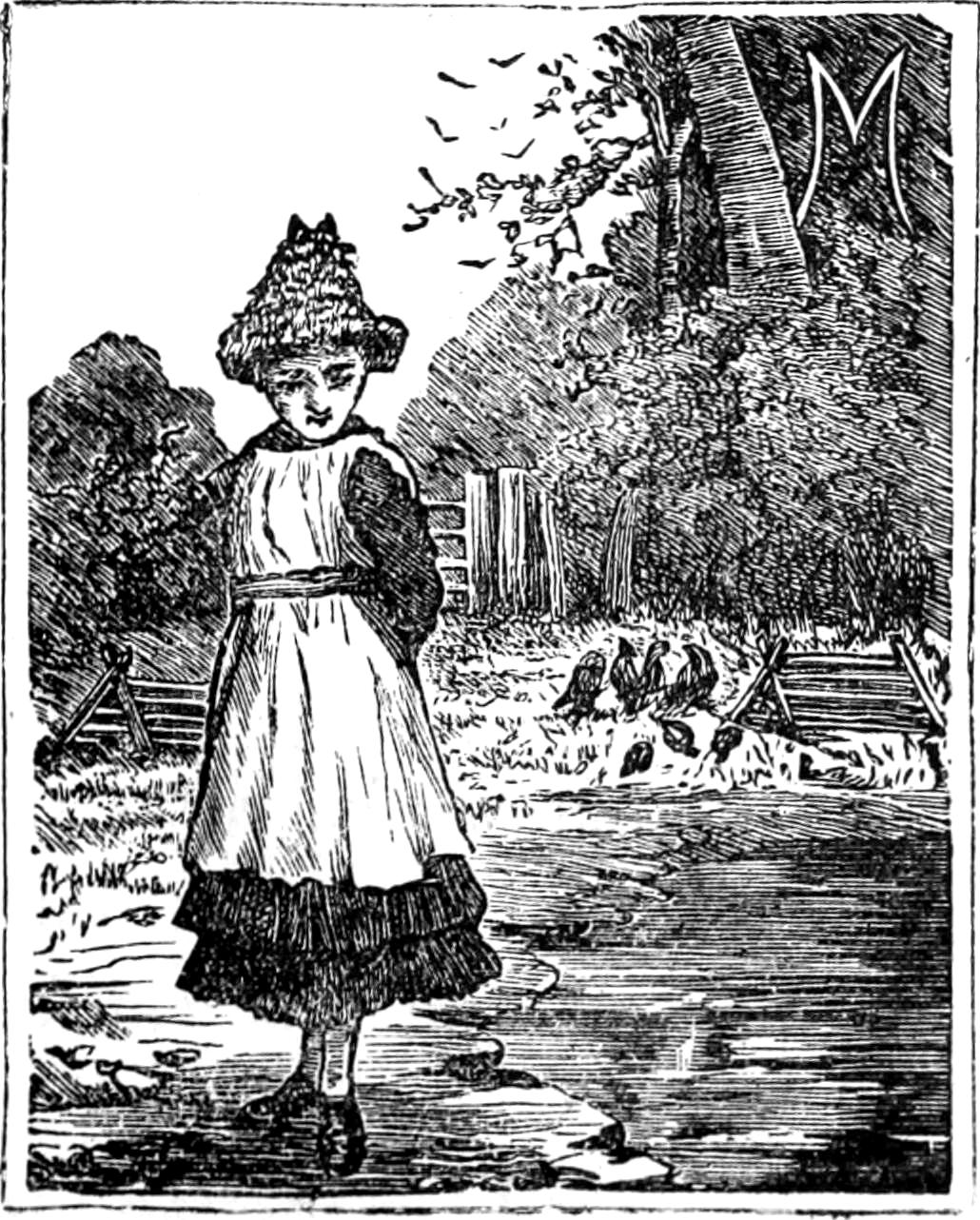 Mary Jones (1784–1864) as a young girl, walking two miles read from a Bible in a farm near her home. She later became famous for walking to Bala in Wales to buy a Bible.Illustration from the 1919 edition of The story of Mary Jones and her Bible by Mary Emily Ropes. Initial letter 'M' at the start of chapter IV.